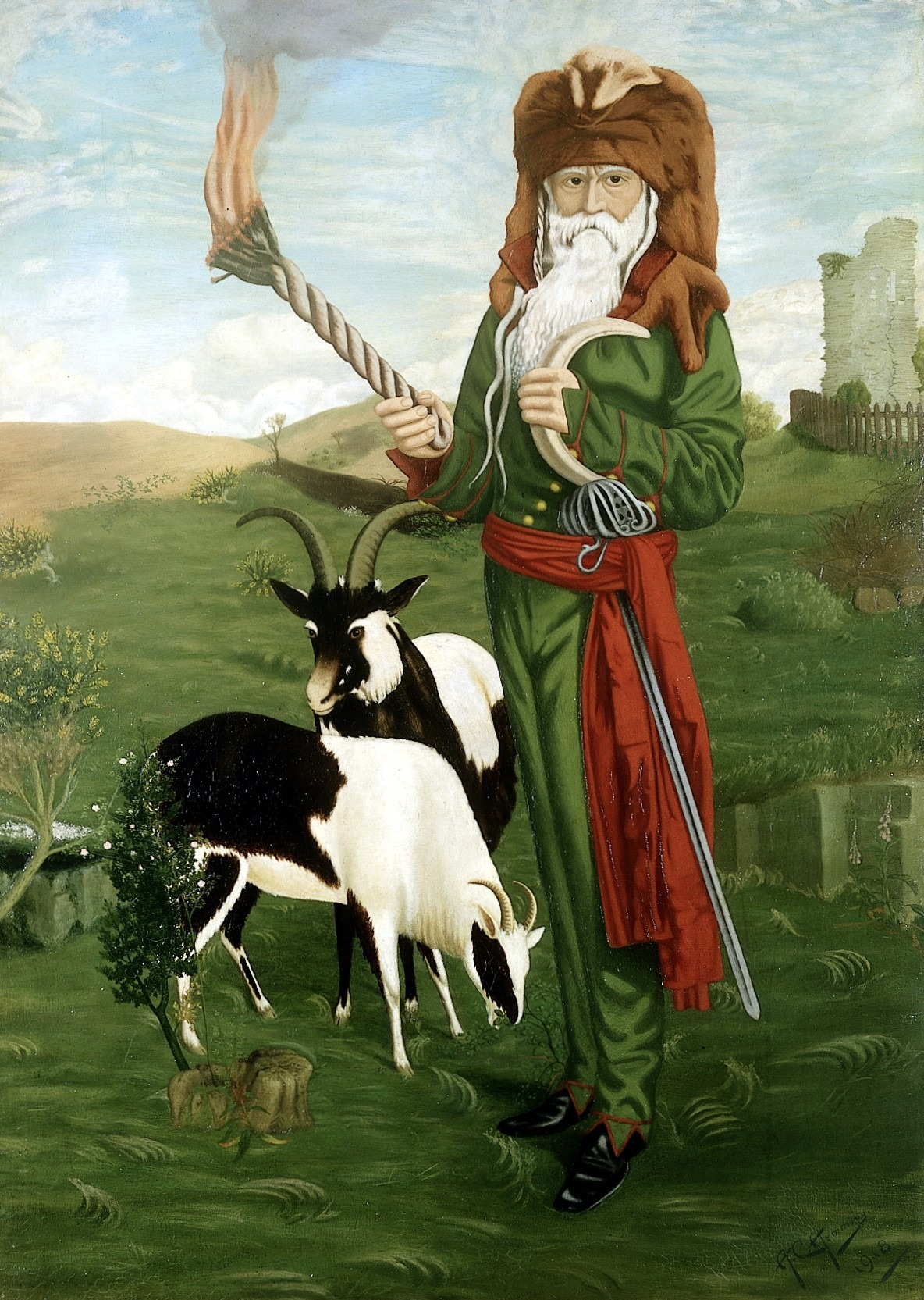 William Price of Llantrisant (1800-1893) MRCS, LSA, medical practitioner, in druidic costume, with goats